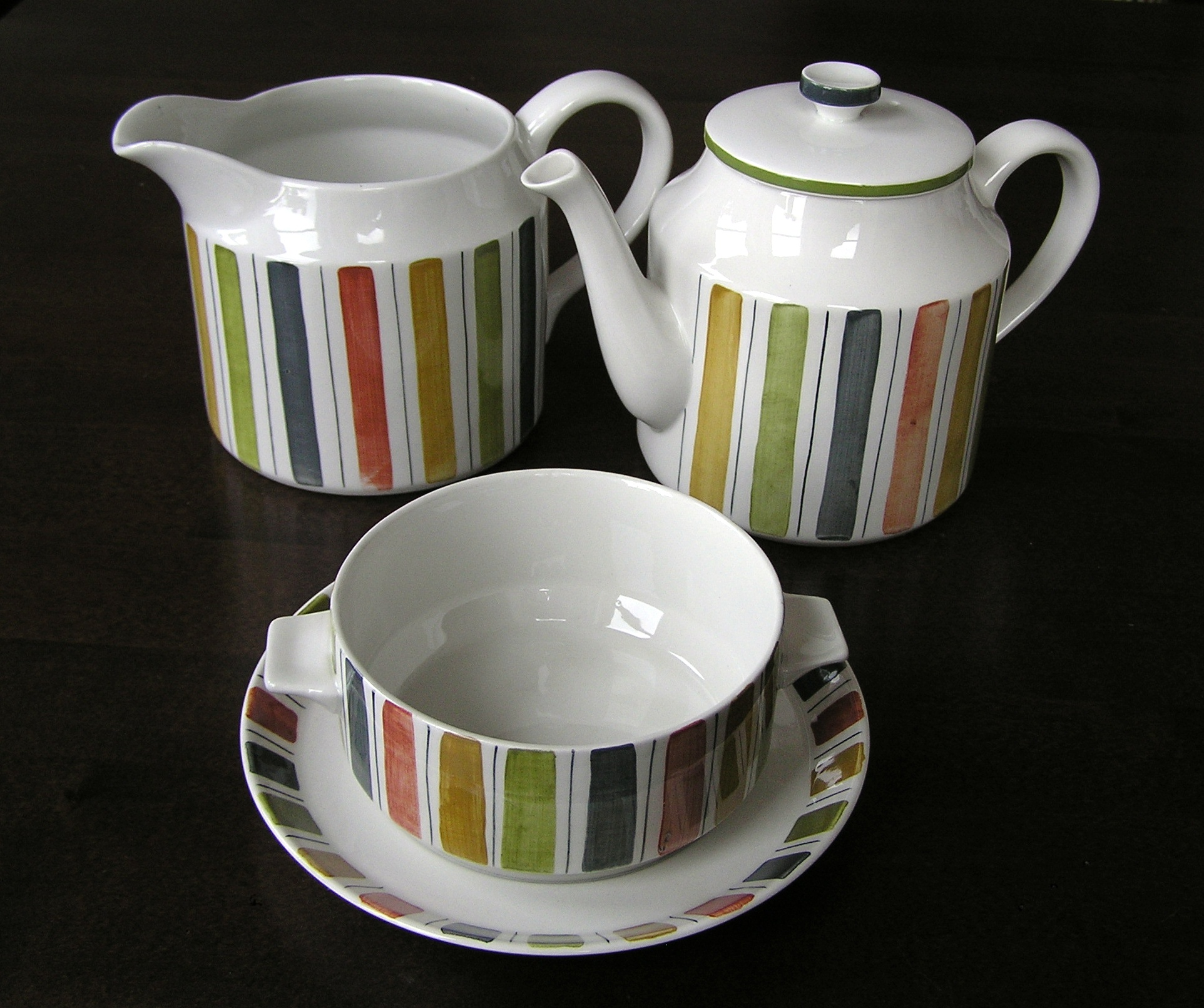 Teapot, jug, and soup bowl from the Mexicana range by Midwinter, designed by Jessie Tait. Photograph taken by CLW and released into the public domain